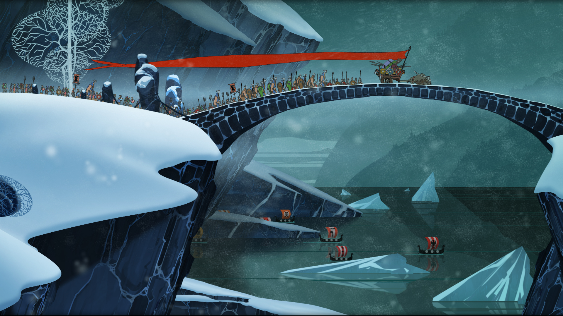 Development artwork from the video game The Banner Saga.